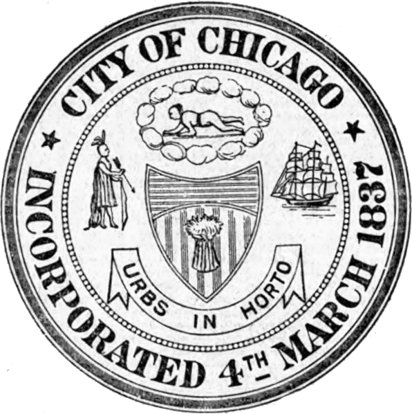 This image is a copy of the historic seal of the City of Chicago, Illinois. As such, it is a work authored before 1922, and is therefore in the public domain. This image is in the public domain due to its age.